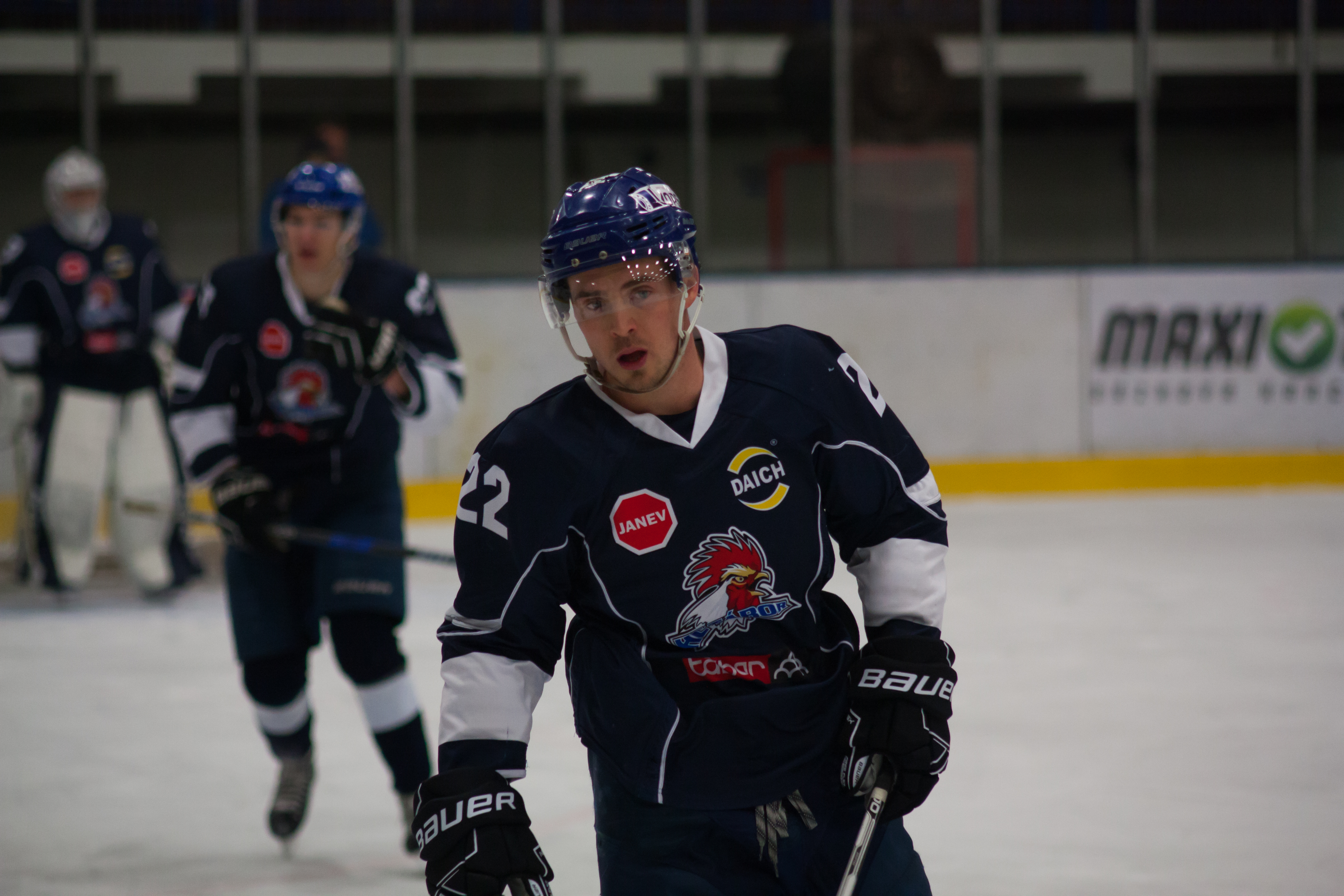 Second Czech league ice hockey match between HC Orlová-HC Tábor played on 12 January 2019